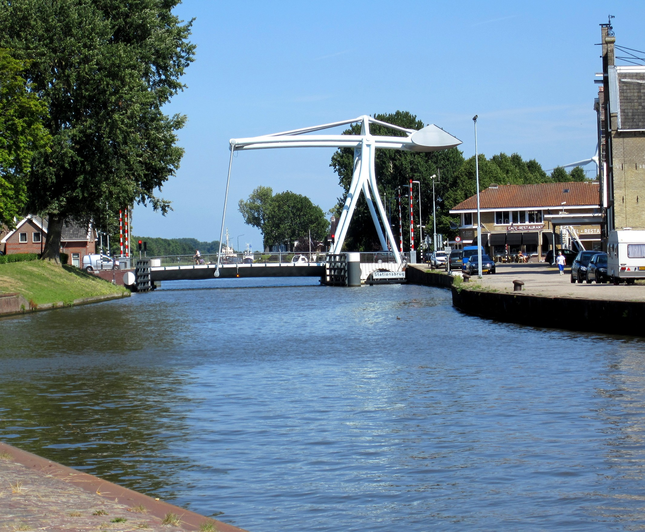 The Stationsbrug (Frisian: Stasjonsbrêge), in Franeker/Frjentsjer, Friesland, the Netherlands. Side view as seen from Zuiderkade.